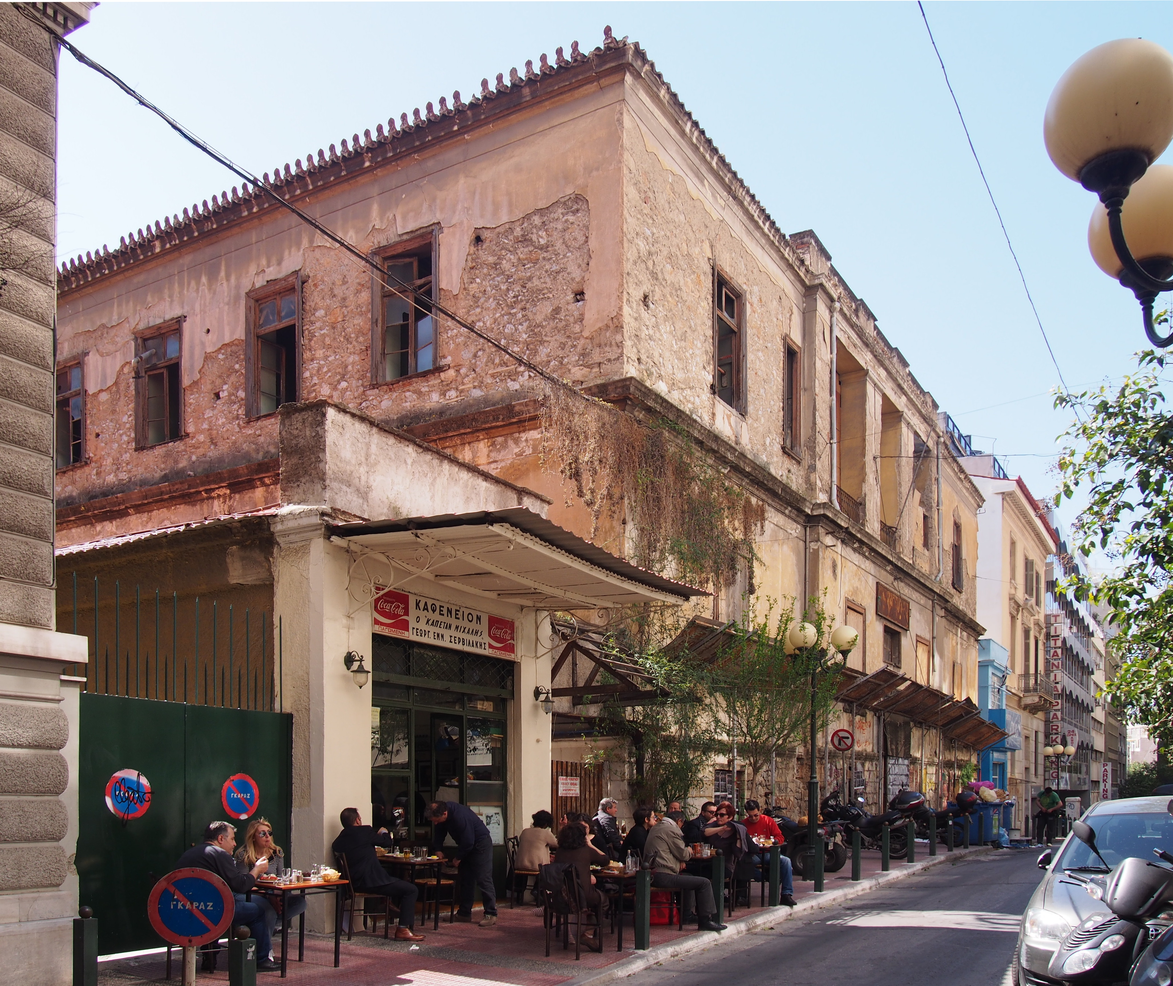 Side view of Prokesch-Osten mansion, Athens. View from Feidiou street.